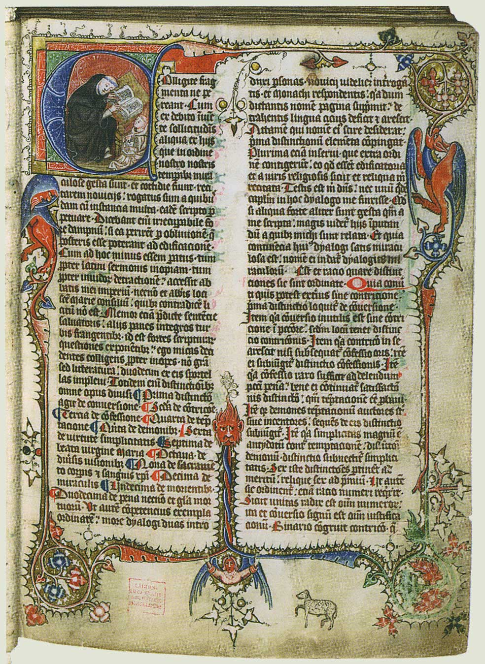 Caesarius of Heisterbach, Dialogus Miraculorum, page from manuscript Ms. C 27, fol 1 r, University library Düsseldorf, early 14th century. This work, first written down in 1222, contains one of the earliest European mentions of the Mongol campaigns in Russia. For the small picture of Benedict of Nursia and Caesarius, see Image:HeisterbachDialogusDetail.jpg.